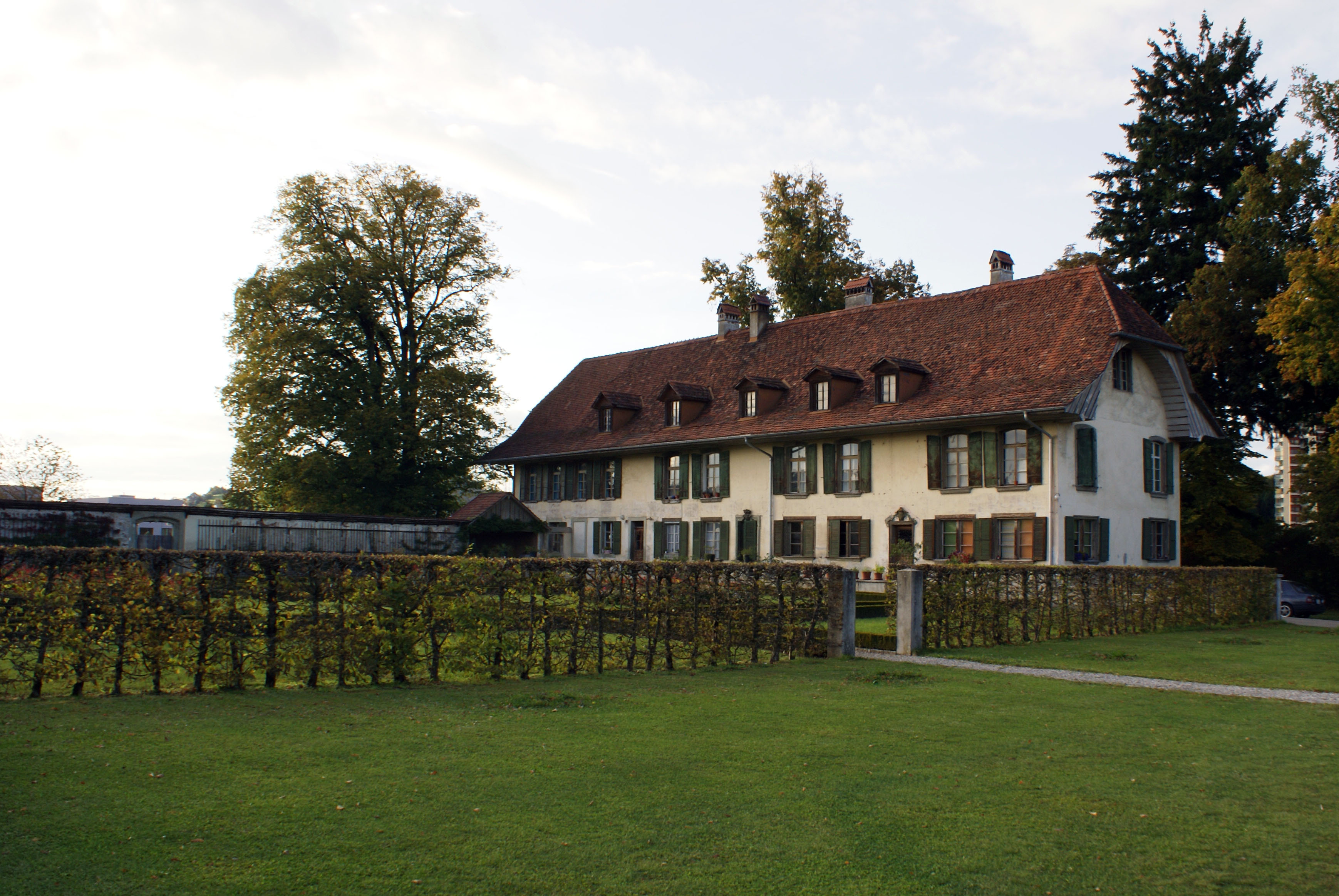 Former manor of Brünnen, Berne, Switzerland.